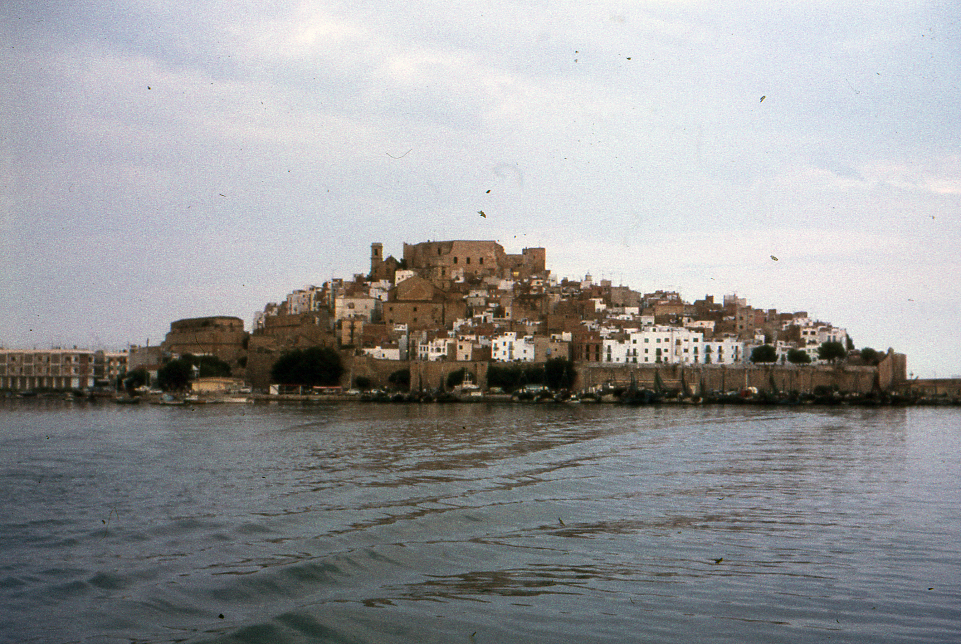 City and walls seen from the south.